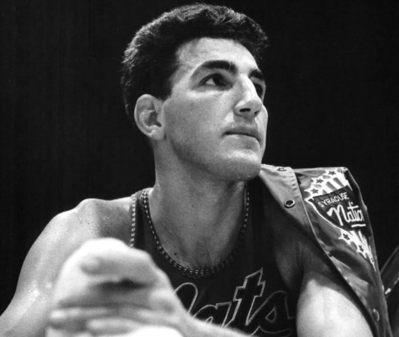 Professional basketball player Dolph Schayes